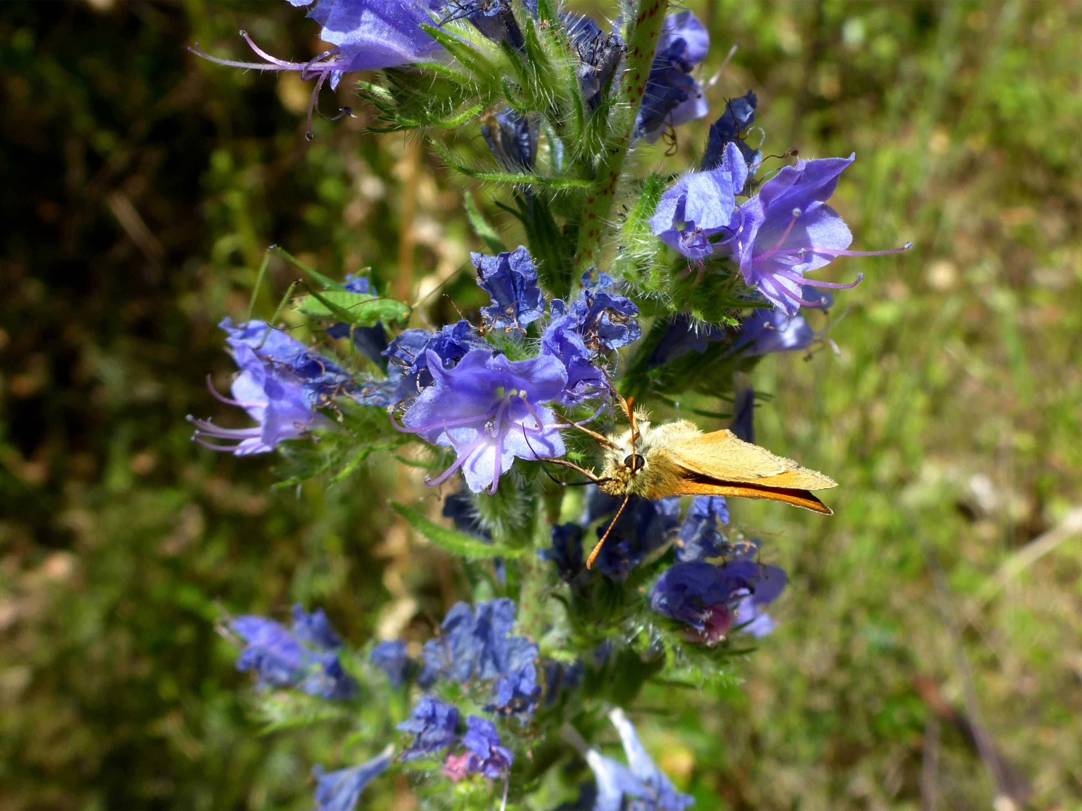 Naturschutzgebiet „Sandgrube im Dreispitz-Mörsch“ is a nature reserve in Baden-Württemberg, Germany.